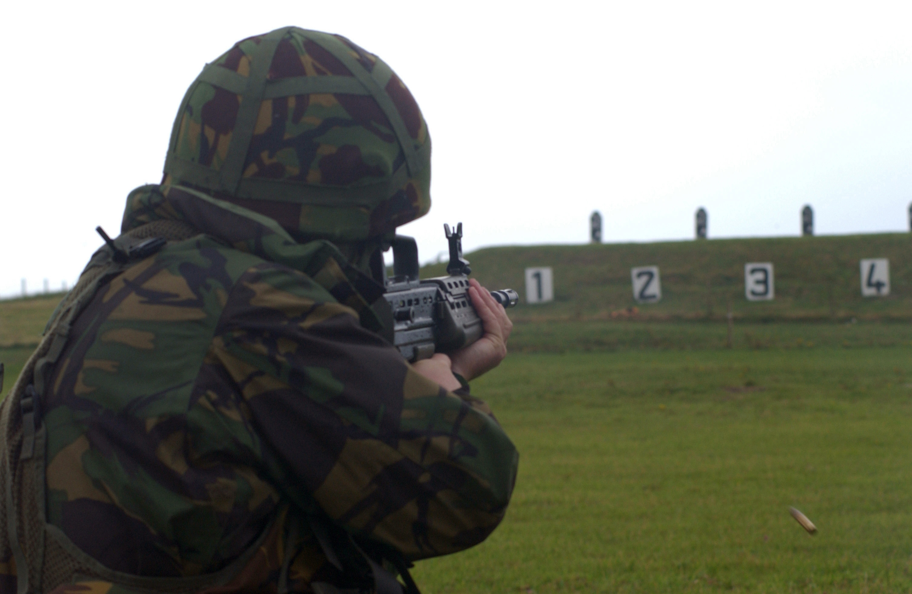 British Territorial Army (BTA), Private (PVT) Robert Hardingham, with the 166th Regiment, practices target shooting with an L85 Individual Weapon (IW) during a multinational exercise on the island of Benbecula, off the coast of Scotland (SCT).